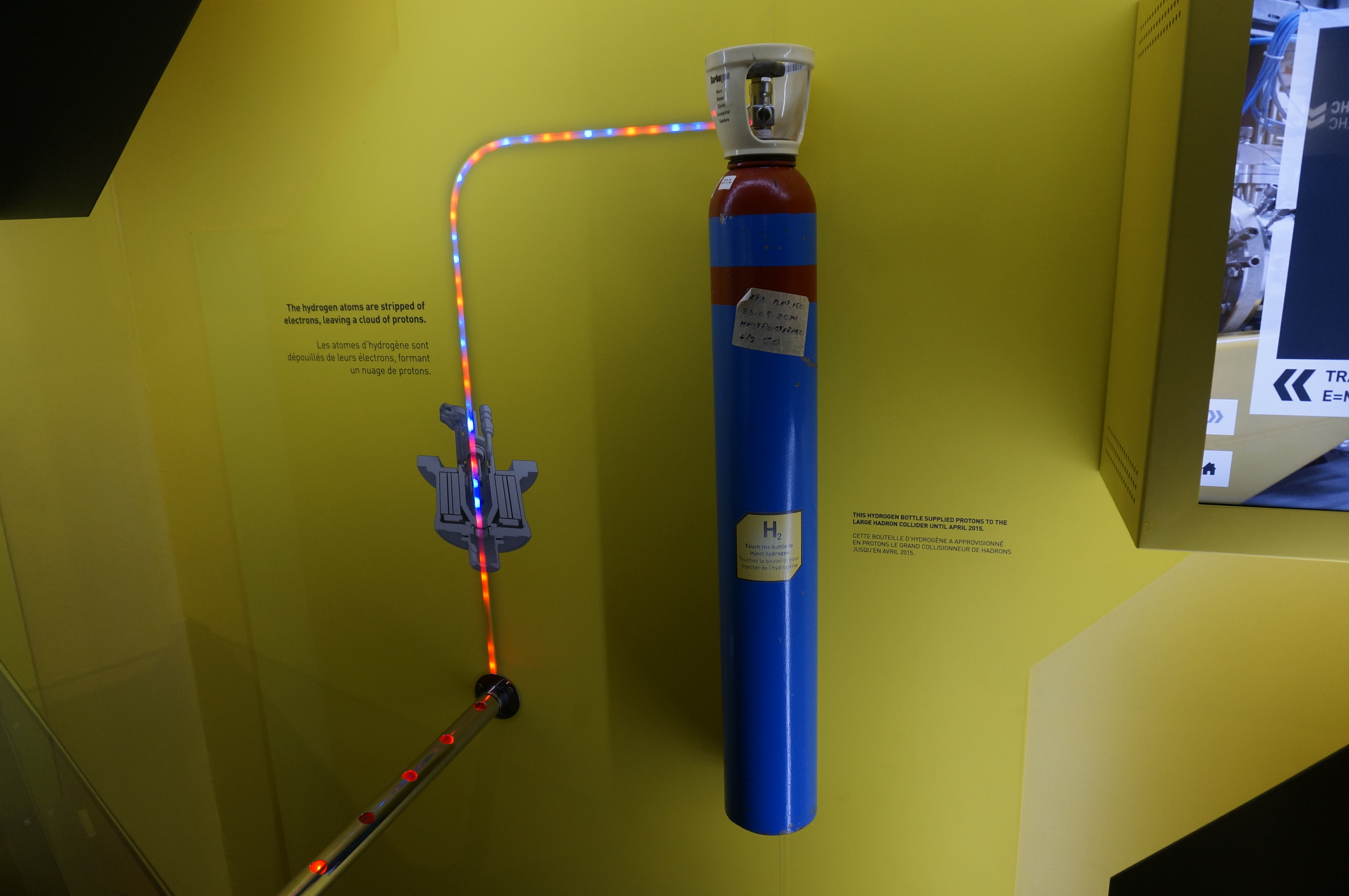 Picture taken at the Microcosm exibition in CERN